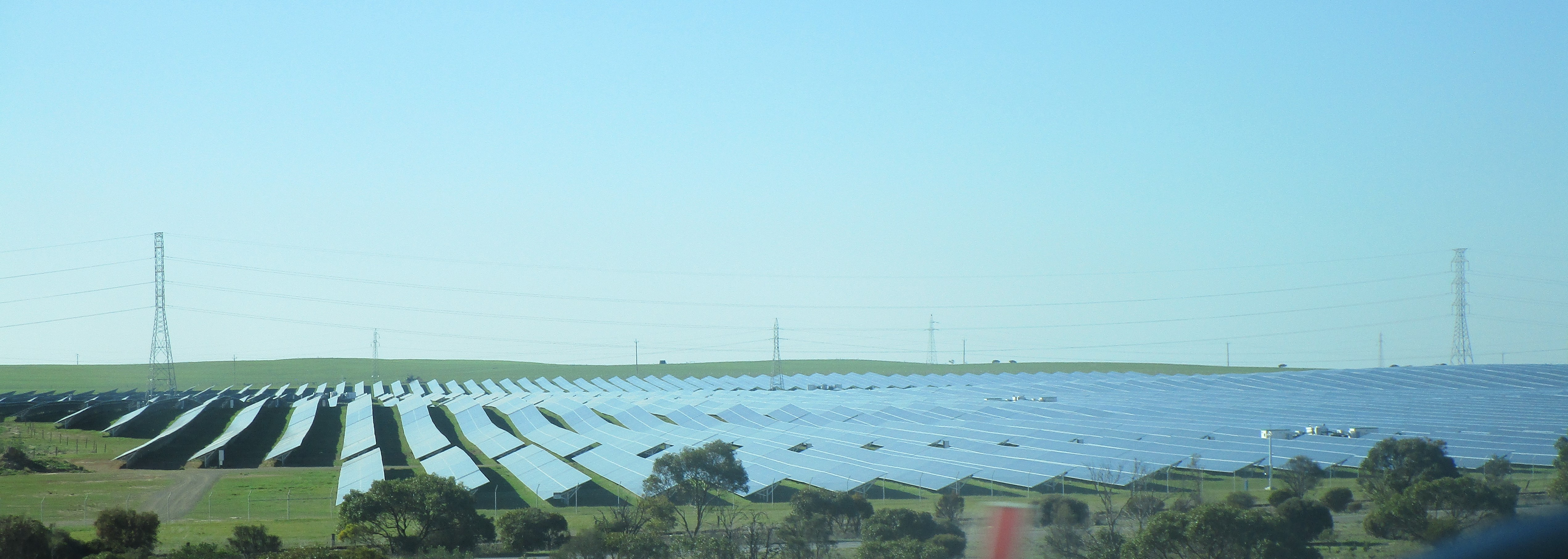 cropped derivative of File:Tailem Bend Solar.jpg